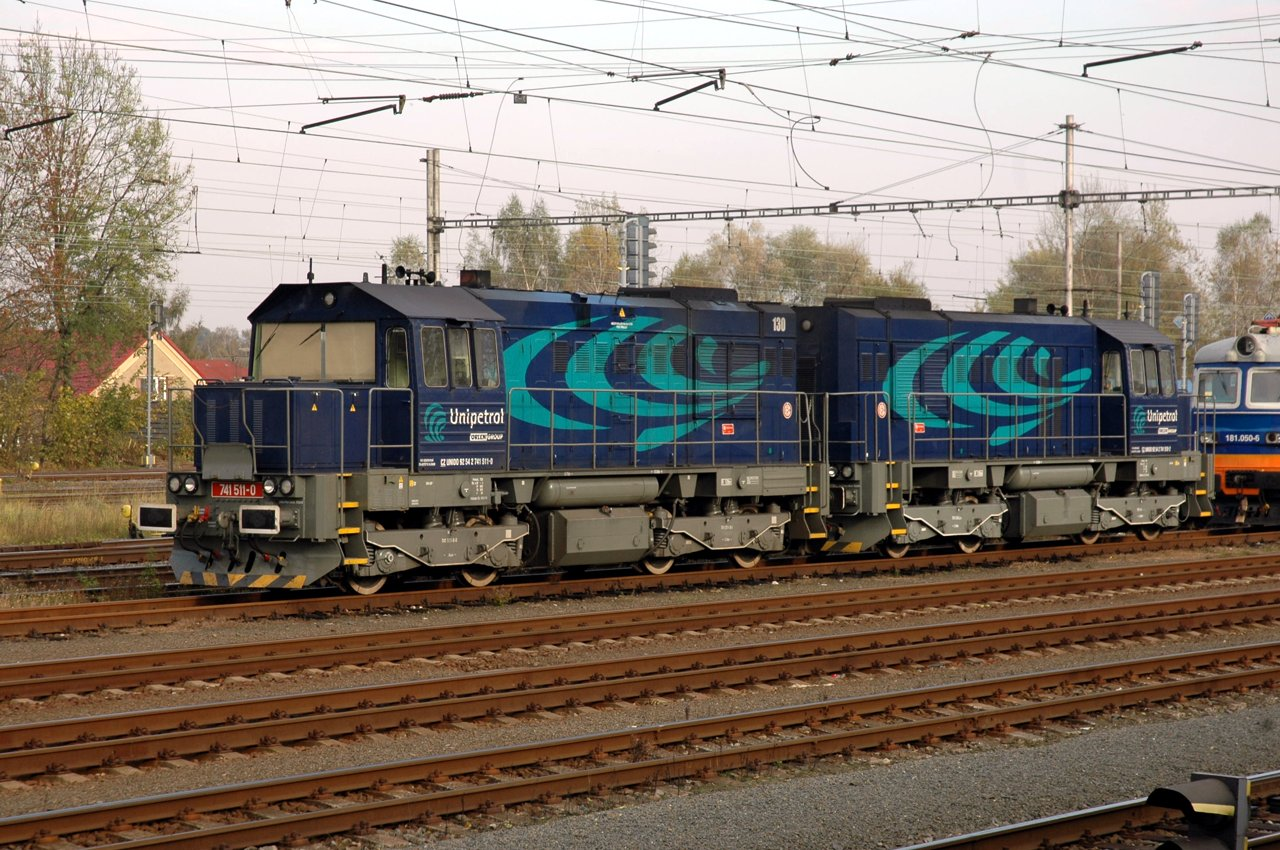 Locomotives 741.511 and 741.510 of Unipetrol Doprava railway operator at Petrovice u Karviné railway station